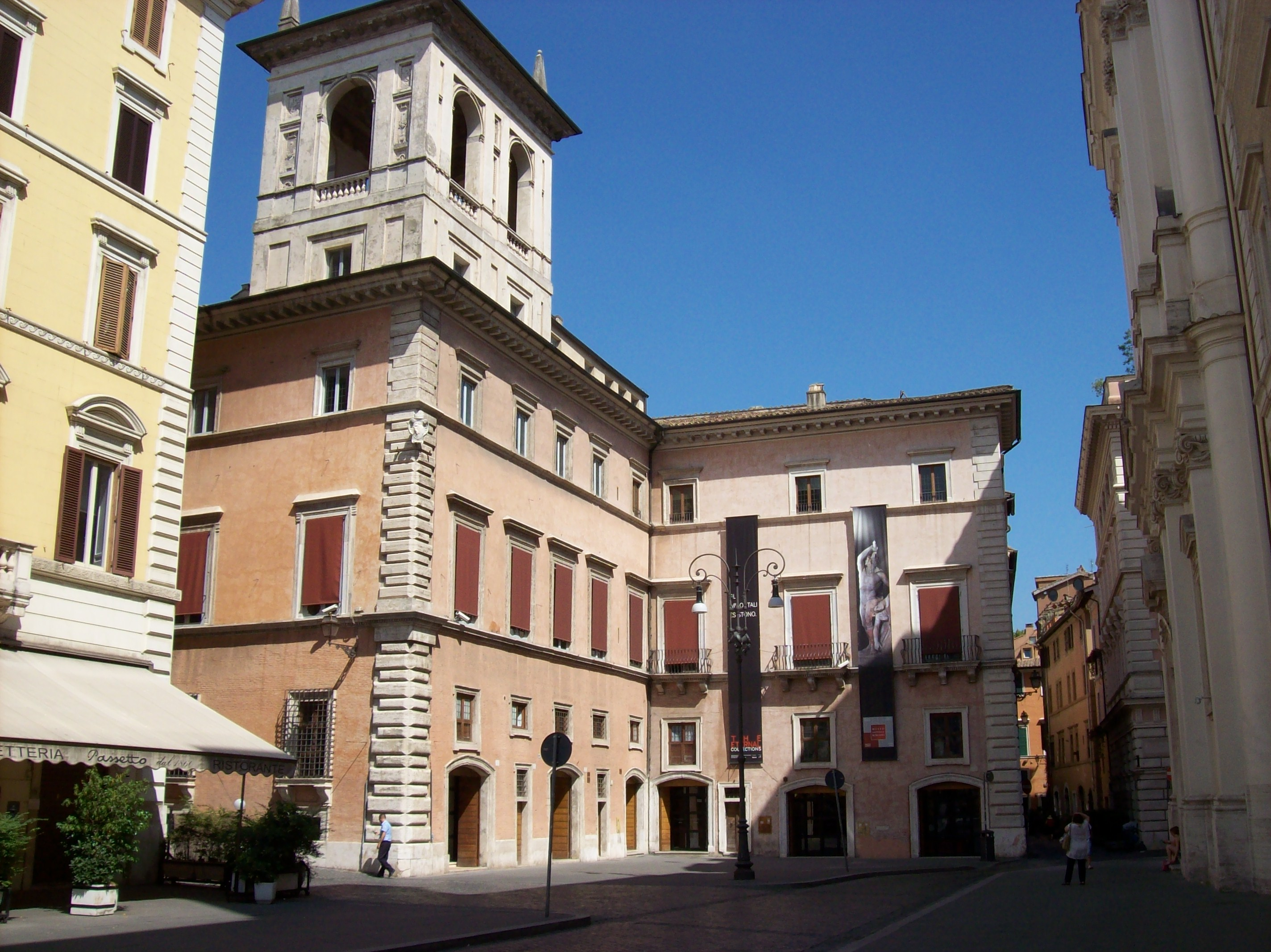 Palazzo Altemps in Rome, Italy